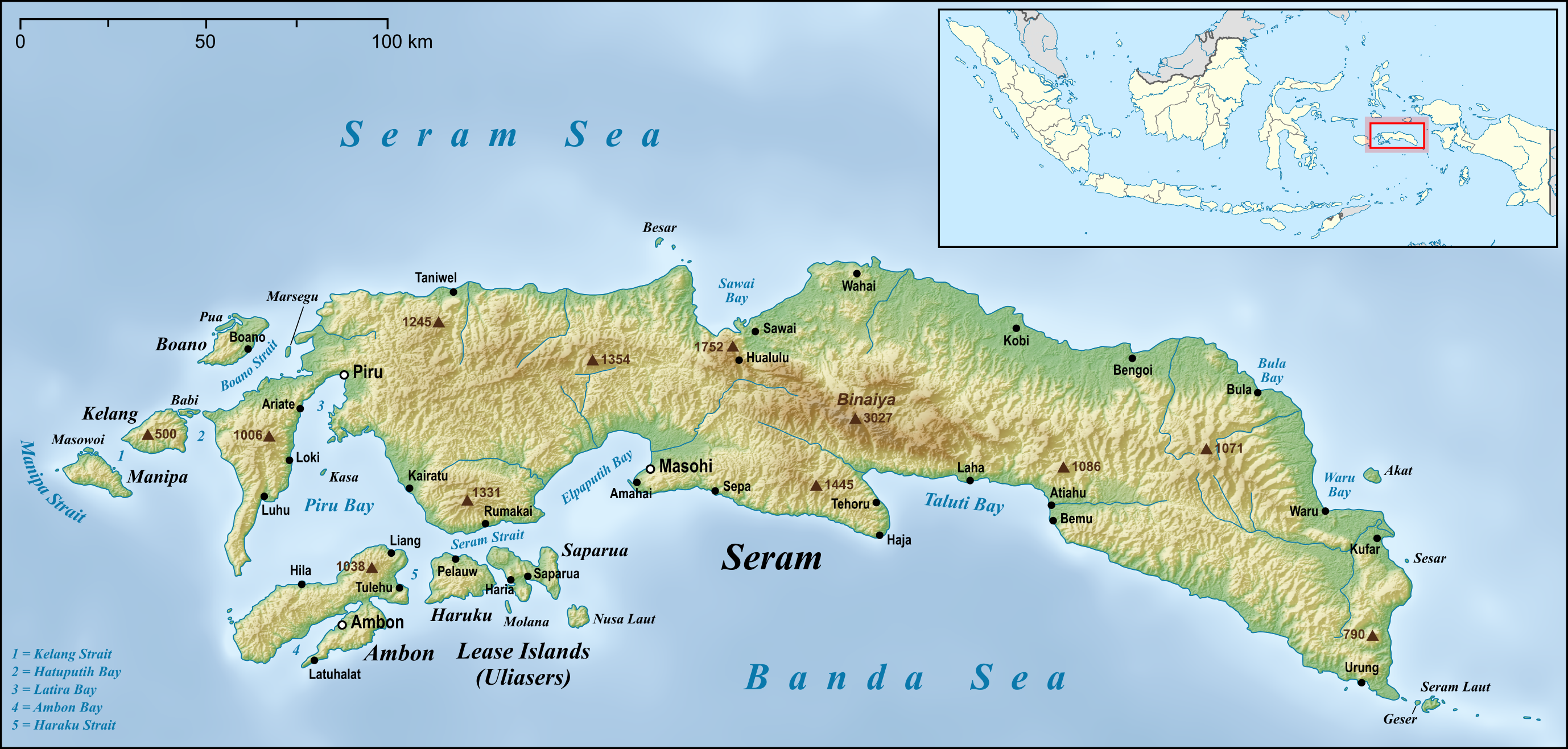 Map of Seram Island and also Ambon Island and Lease Islands